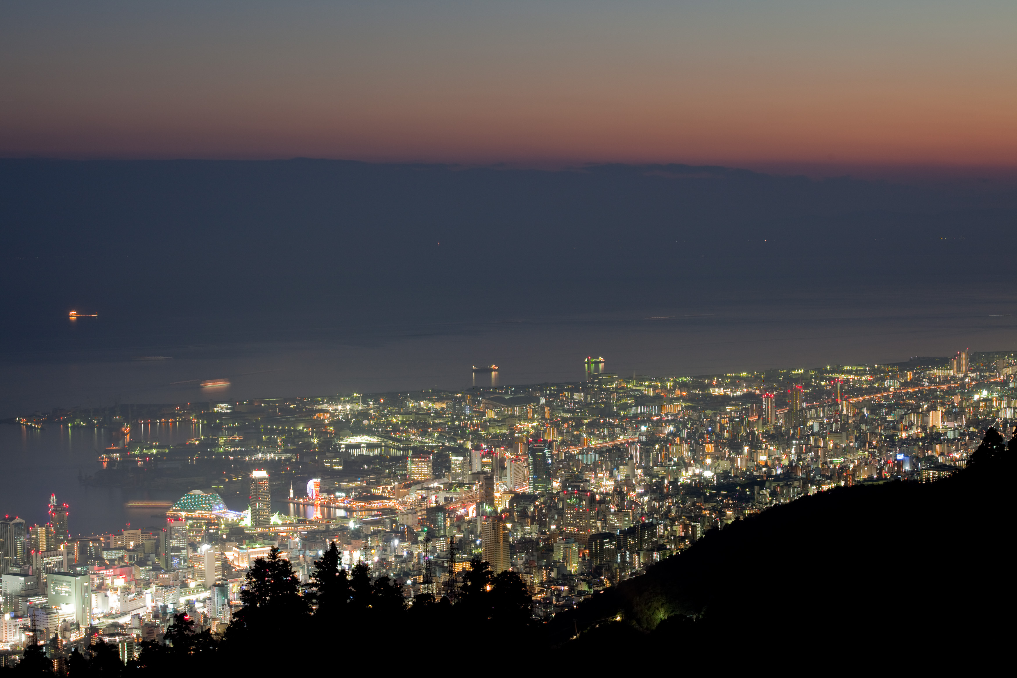 Kobe downtown at night, shot from Mount Maya